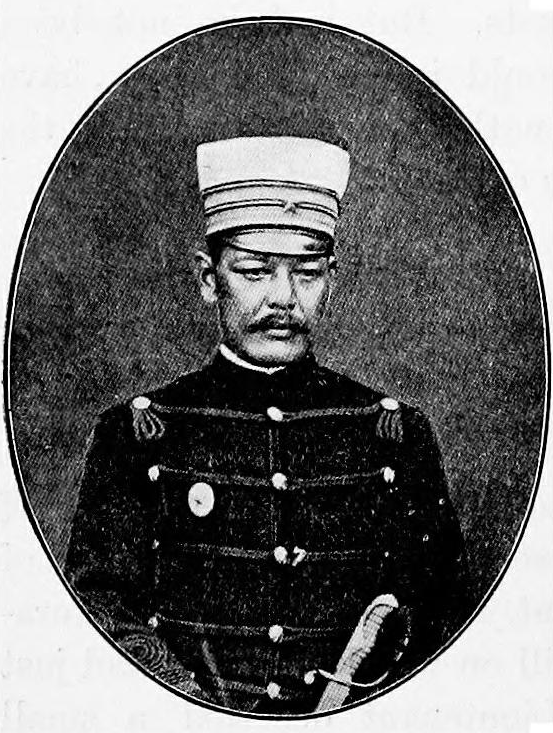 Major Akiyama